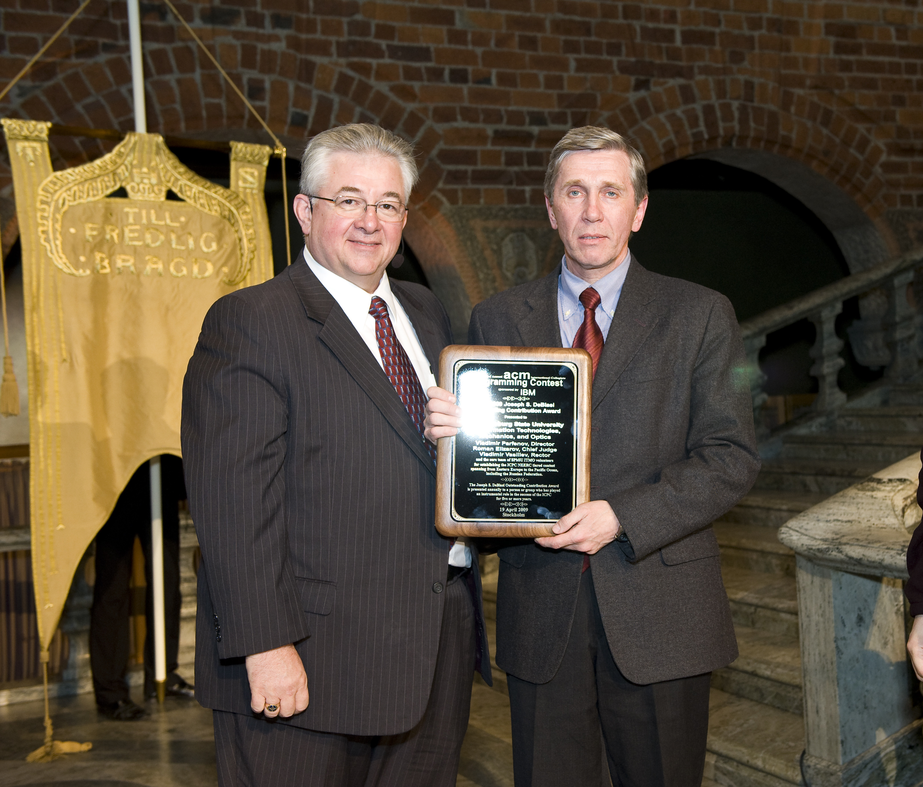 Vladimir Parfenov receives DeBlasi Award 2009